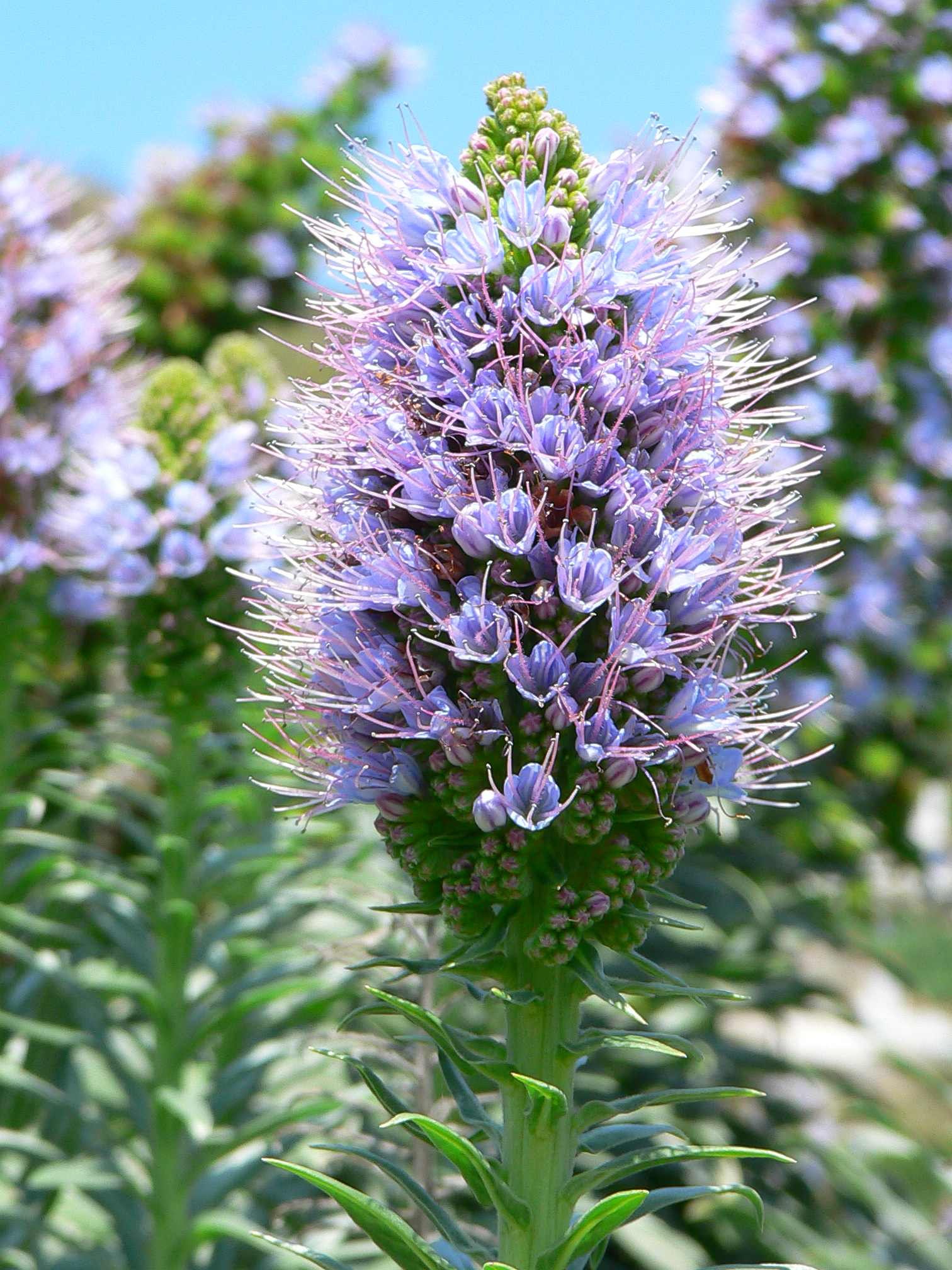 Echium hierrense, in bloom, at the Jardin Botánico Viera y Clavijo, Gran Canaria (Canary Islands, Spain)